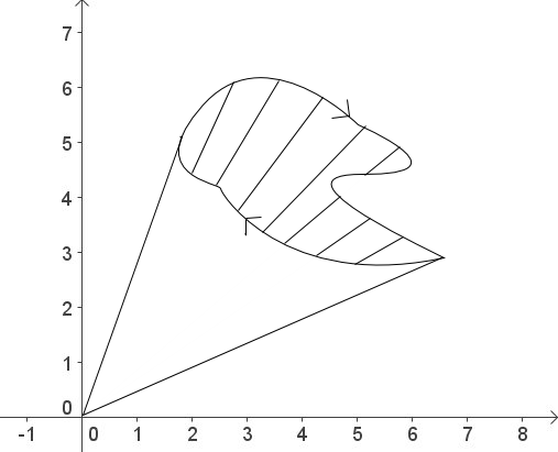 illustration for leibniz's sector formula